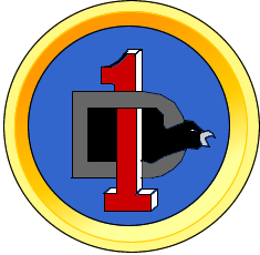 Image depicting the seal of the 1st division of the Colombian National Army